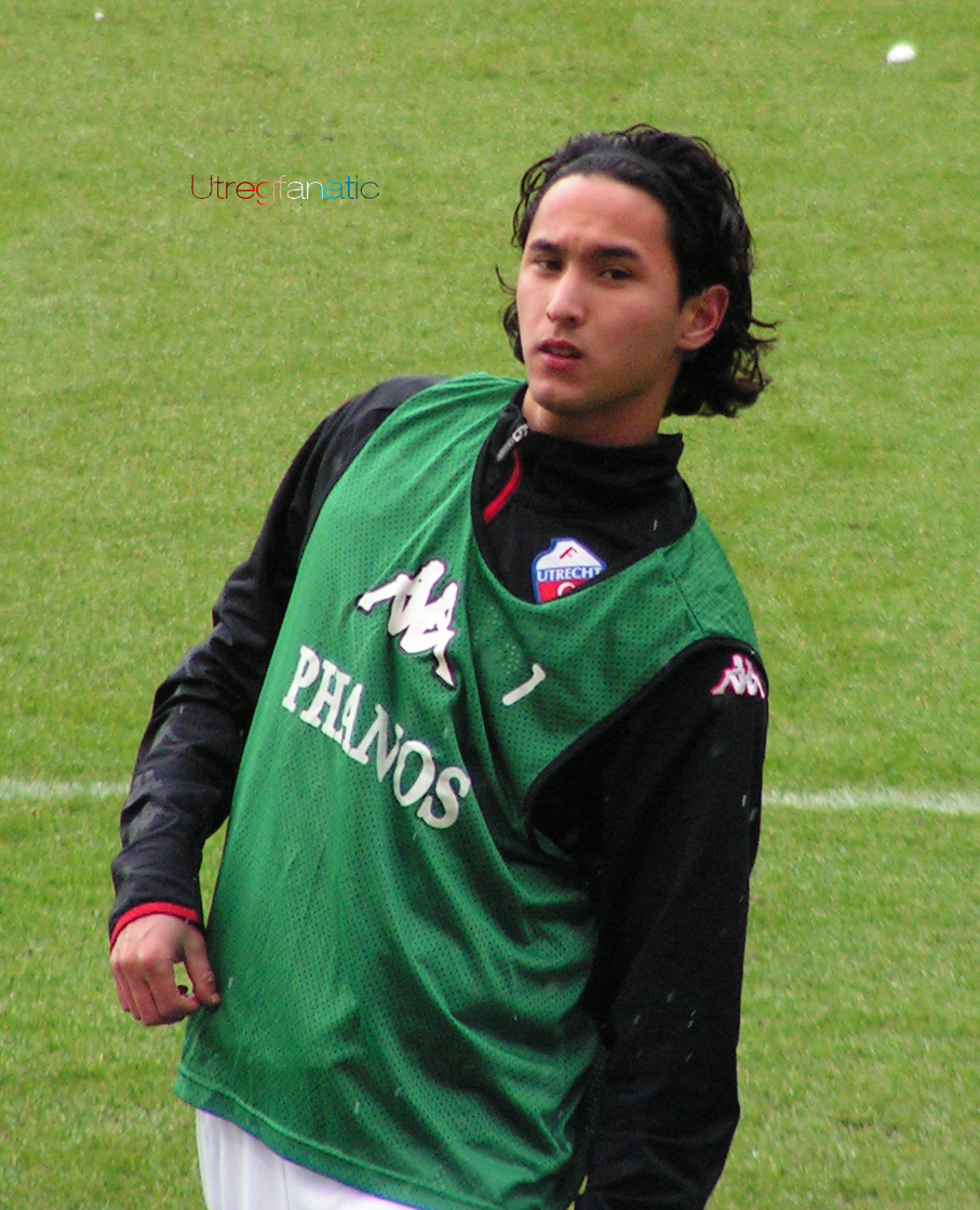 Mark van der Maarel